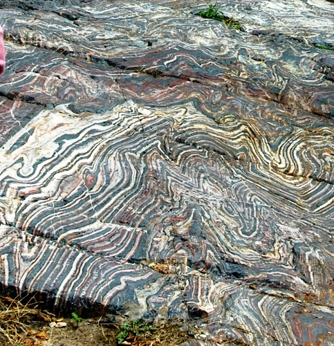 outcropping banded iron formation Banded iron formation at the Soudan iron mine, now a Minnesota State Park. These beds were deposited in Precambrian seas, crumpled by tectonic forces during Precambrian times, and planed by glacial ice that retreated from the area about 10,000 years ago.